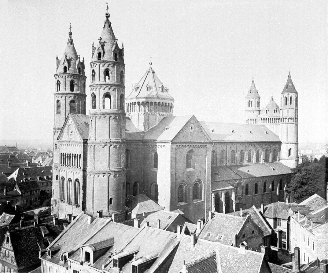 Cathedral of Worms, in 1904